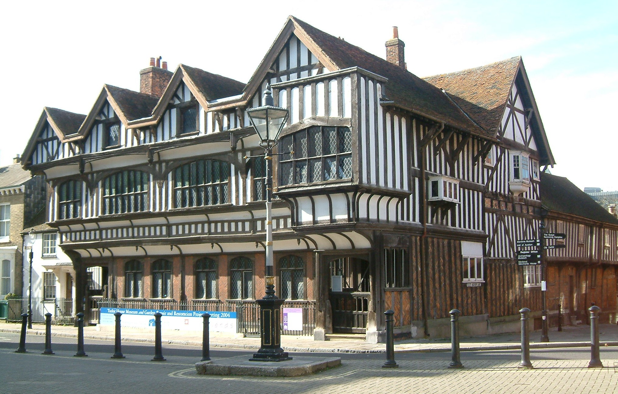 Tudor House Museum, Southampton, Hampshire, England